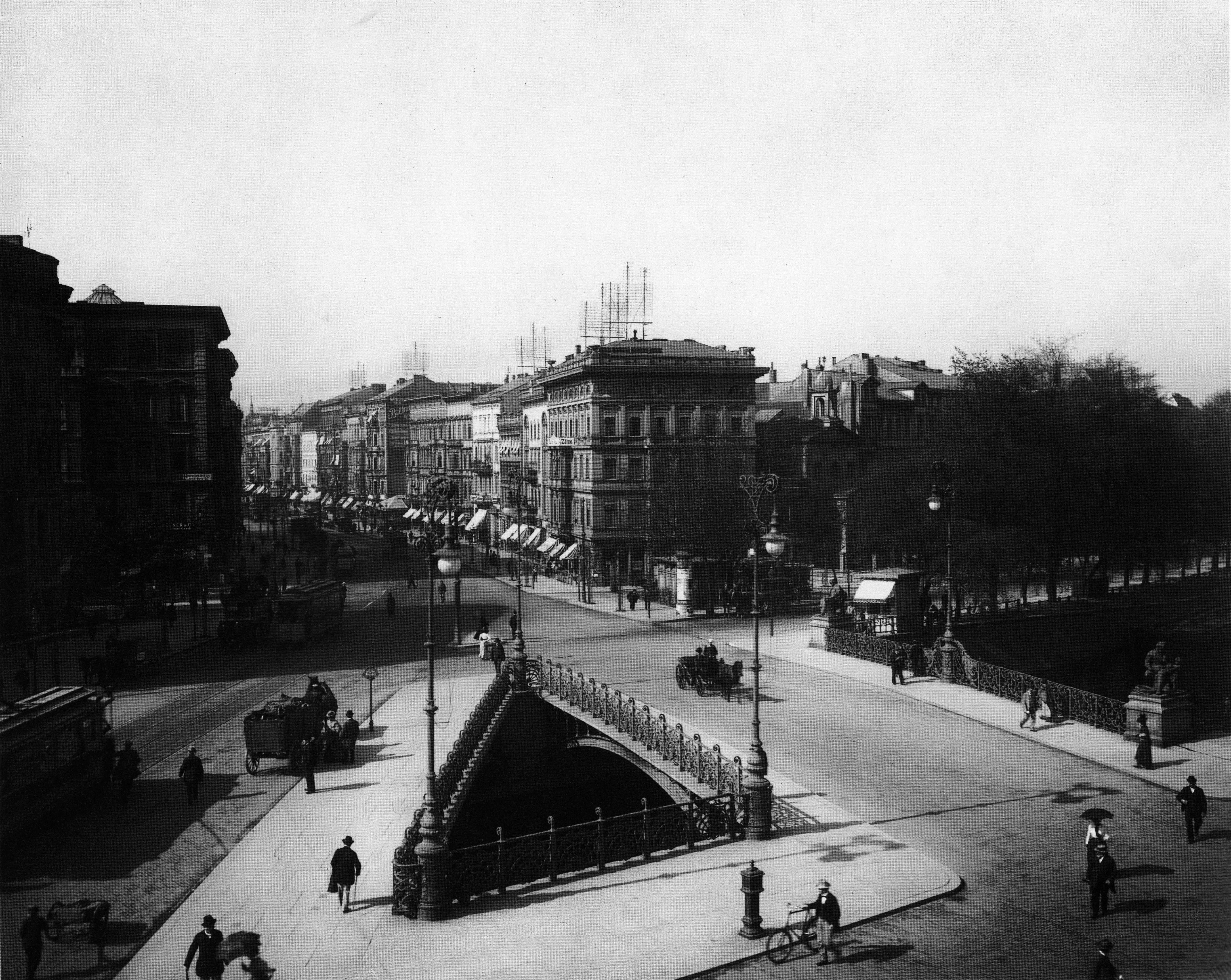 Potsdamer Brücke (“Potsdam bridge”) across Landwehrkanal in Schöneberger Vorstadt, Berlin (now in Tiergarten district), looking south.